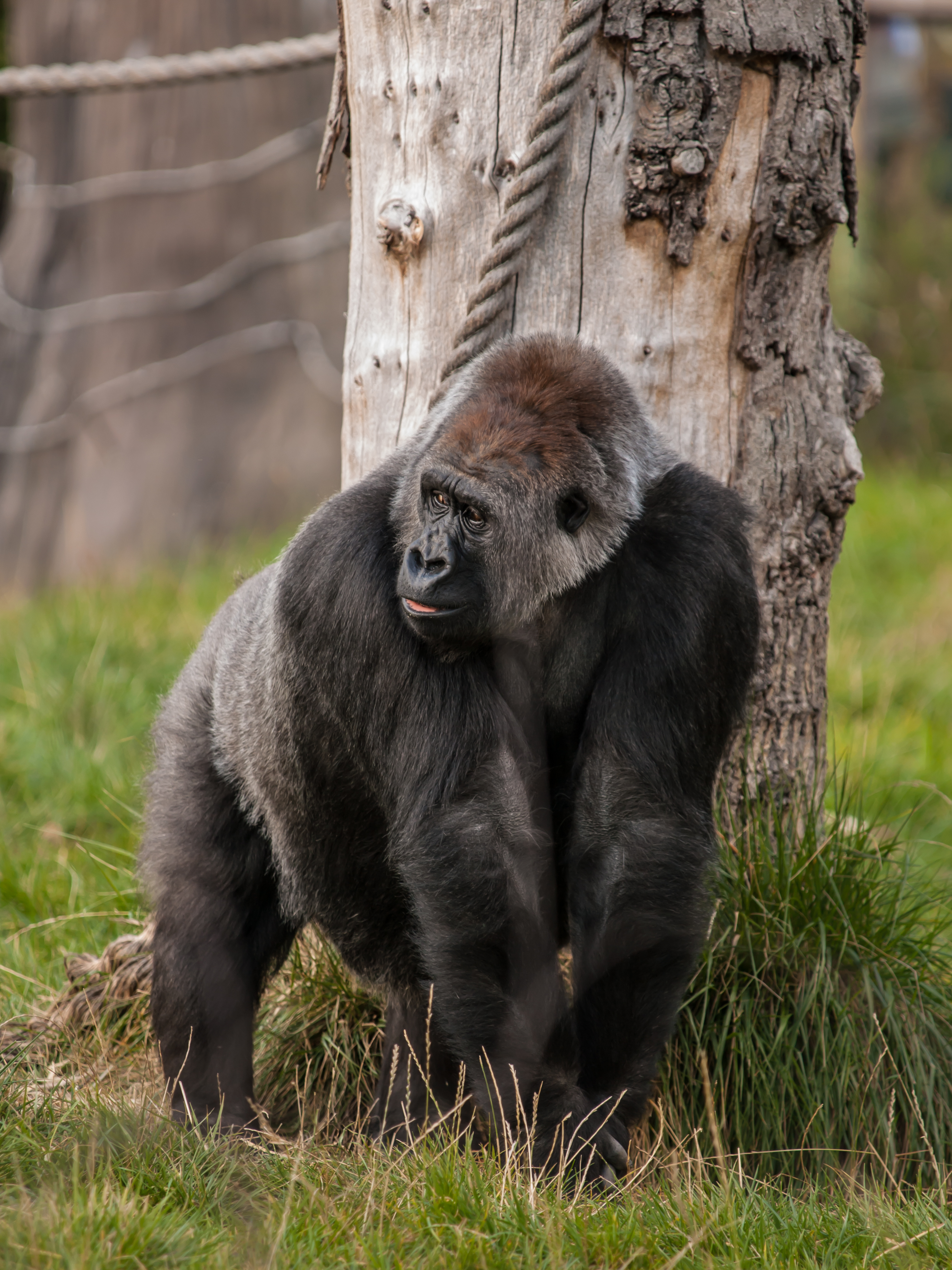 Silverback (adult male) Western Lowland Gorilla (Gorilla gorilla gorilla) at the London Zoo, England.